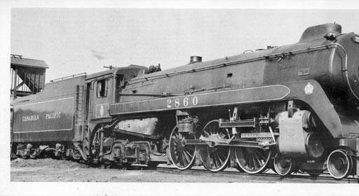 C.P.R. railroad locomotive 2860